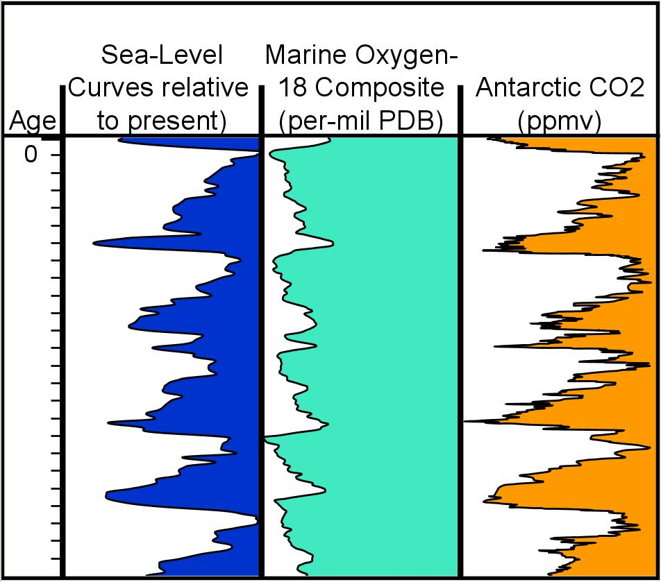 Climate indicators for last 0.5 mln years: Sea level curves (blue) Marine 18O concentration (cyan) Antarctic CO2 concentration (brown)